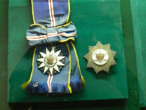 Sri Pahlawan Gagah Perkasa (the Gallant and Valiant Warrior) of Malaysia, instituted 1960.